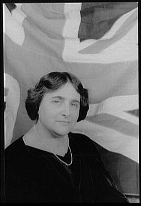 Myra Hess. Quelle: Urheber: Carl Van VechtenPortrait of Dame Myra Hess